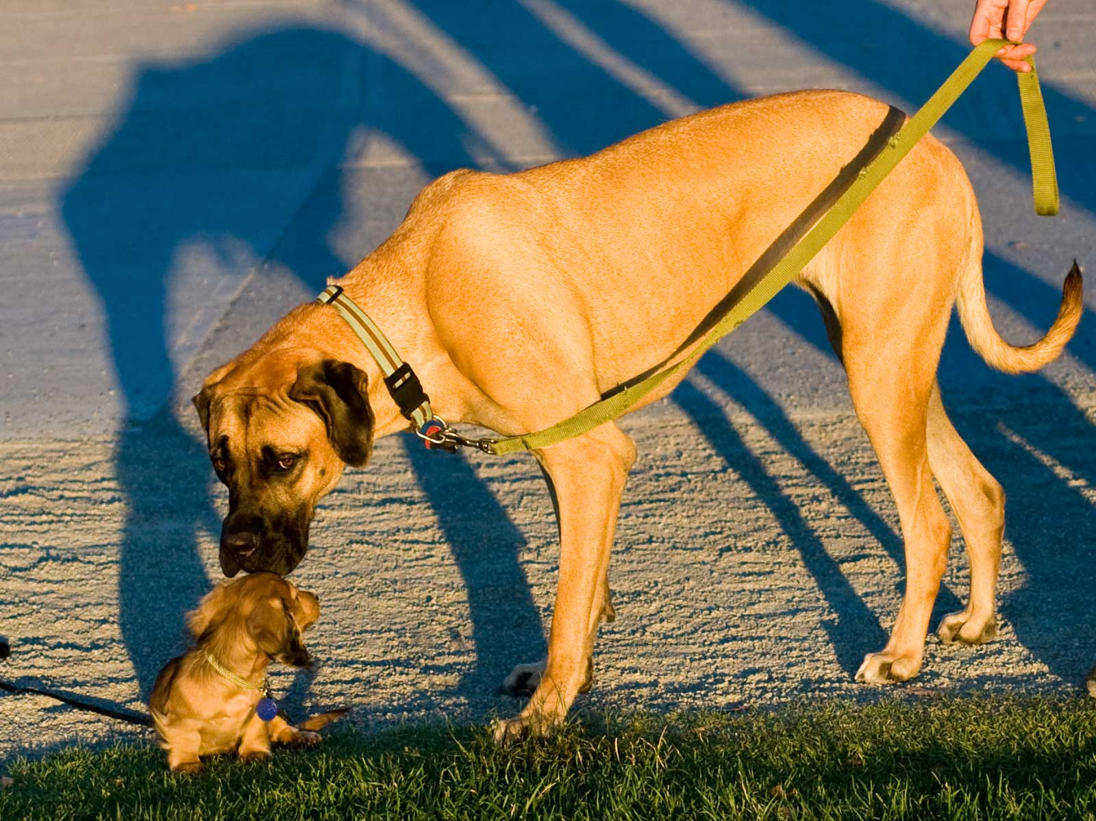 Big dog sniffs small Dachshund at the beach.